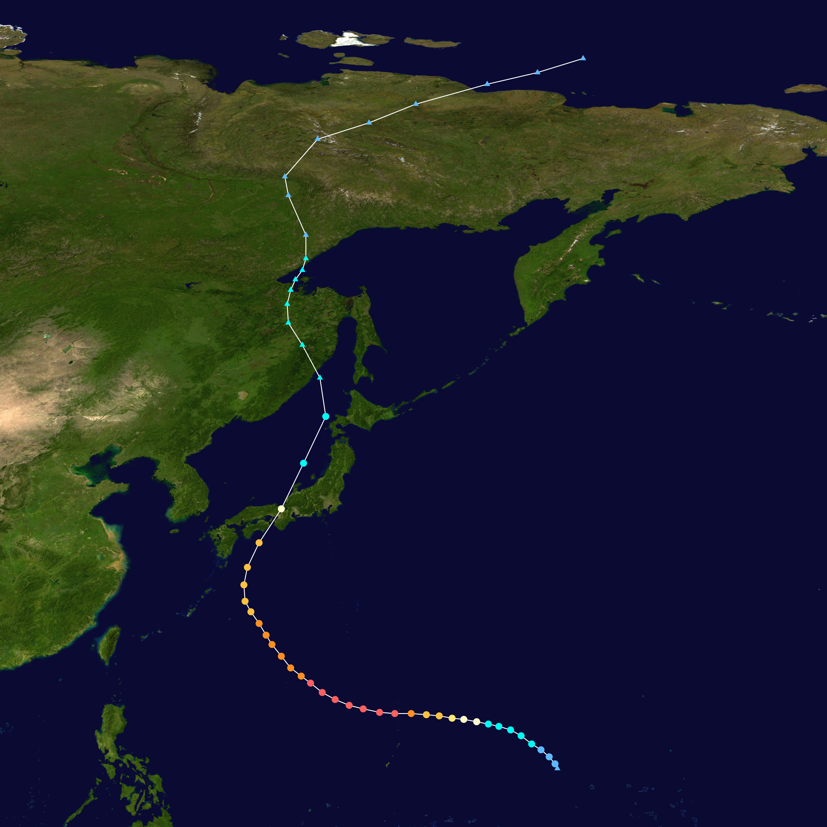 Track map of Typhoon Jebi of the 2018 Pacific typhoon season. The points show the location of the storm at 6-hour intervals. The colour represents the storm's maximum sustained wind speeds as classified in the Saffir–Simpson scale (see below), and the shape of the data points represent the nature of the storm, according to the legend below. Saffir–Simpson scale Tropical depression≤38 mph≤62 km/h Category 3111–129 mph178–208 km/h Tropical storm39–73 mph63–118 km/h Category 4130–156 mph209–251 km/h Category 174–95 mph119–153 km/h Category 5≥157 mph≥252 km/h Category 296–110 mph154–177 km/h Unknown Storm type Tropical cyclone Subtropical cyclone Extratropical cyclone / Remnant low / Tropical disturbance / Monsoon depression